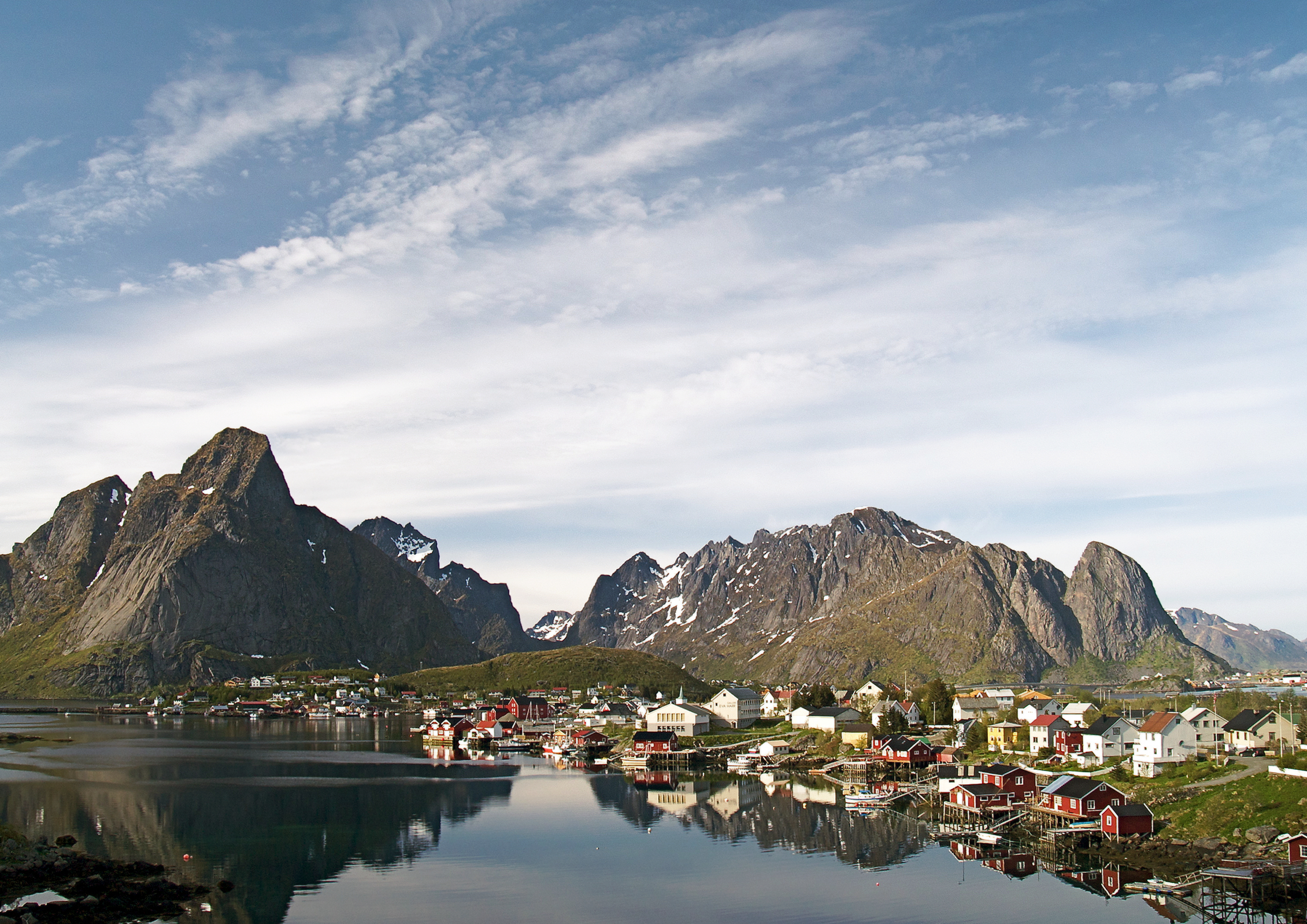 Reine on the Lofoten island Moskenesøy